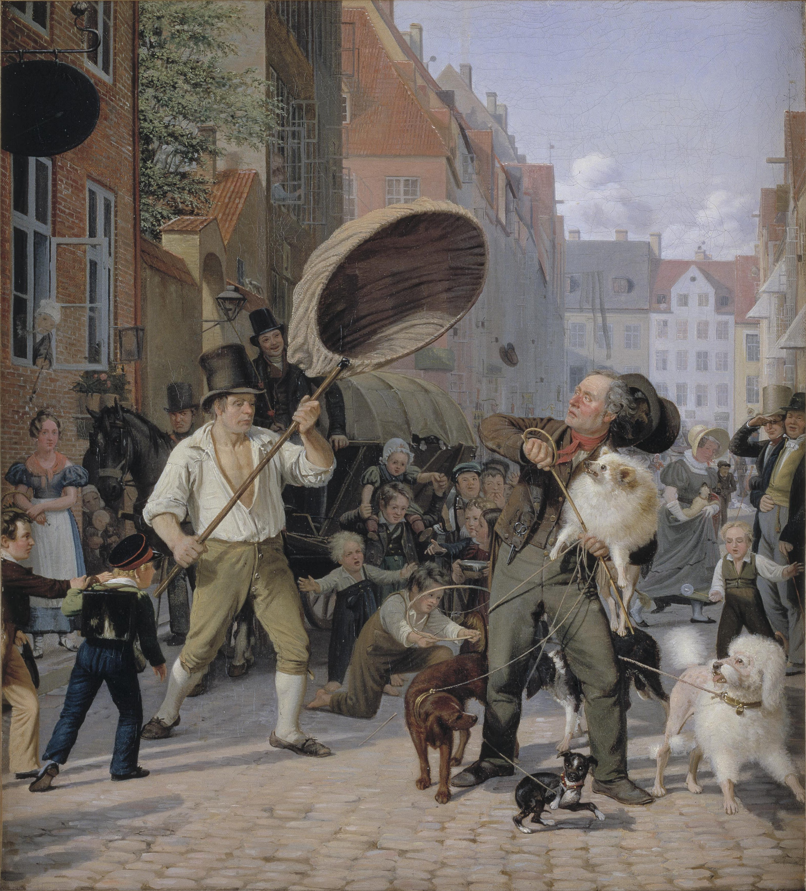 In this street scene from Copenhagen, Marstrand played on the difference between the dog-breeder, parading his dogs, and the dog-catcher, always ready for fun.